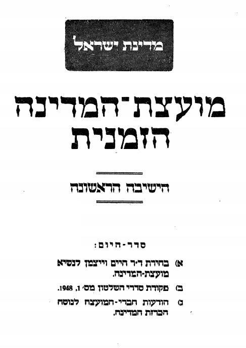 The Provisional State of Israel Council, minutes of its first meeting